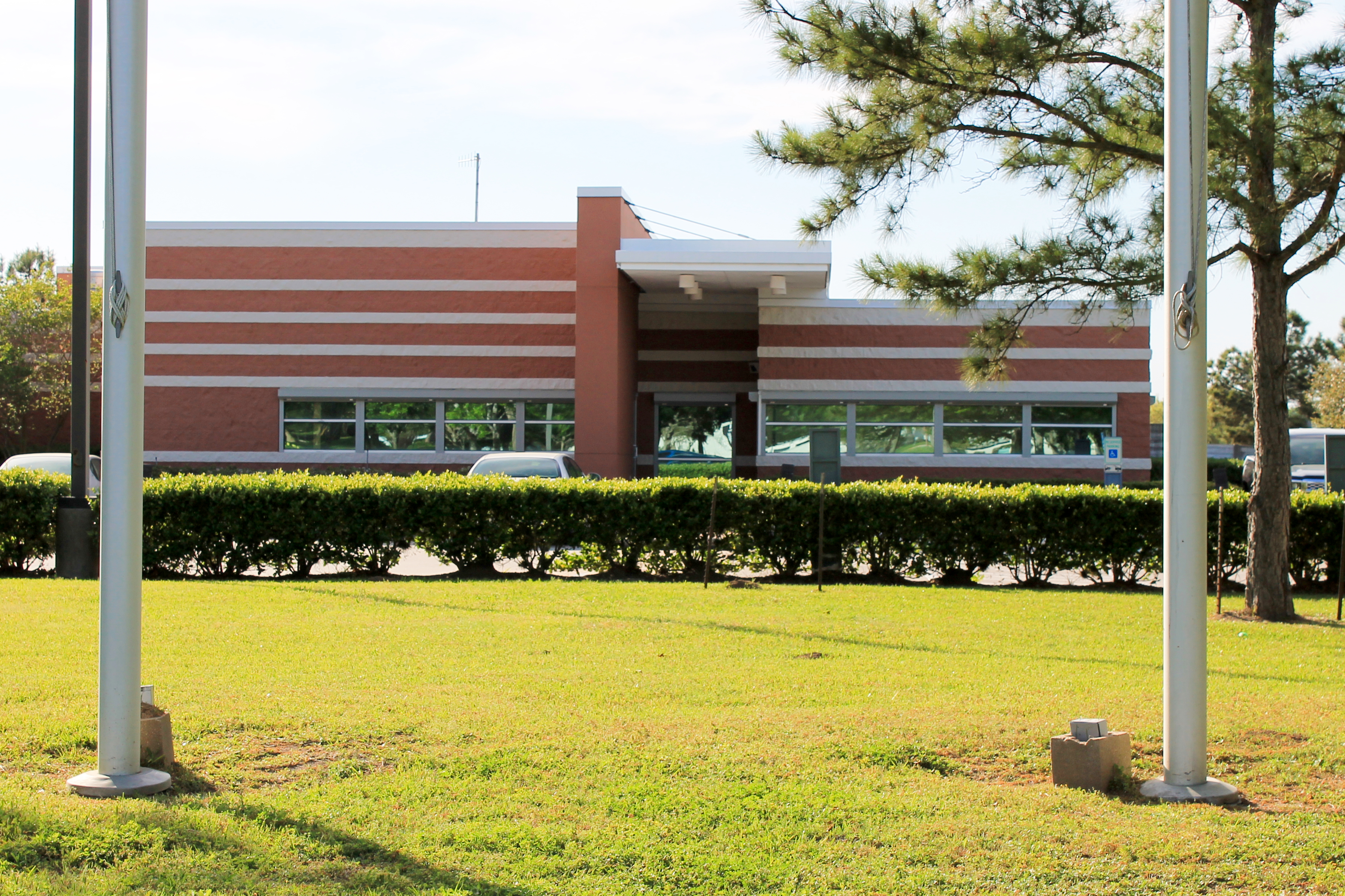 The Clear Lake Station of the Houston Police Department in March 2014.